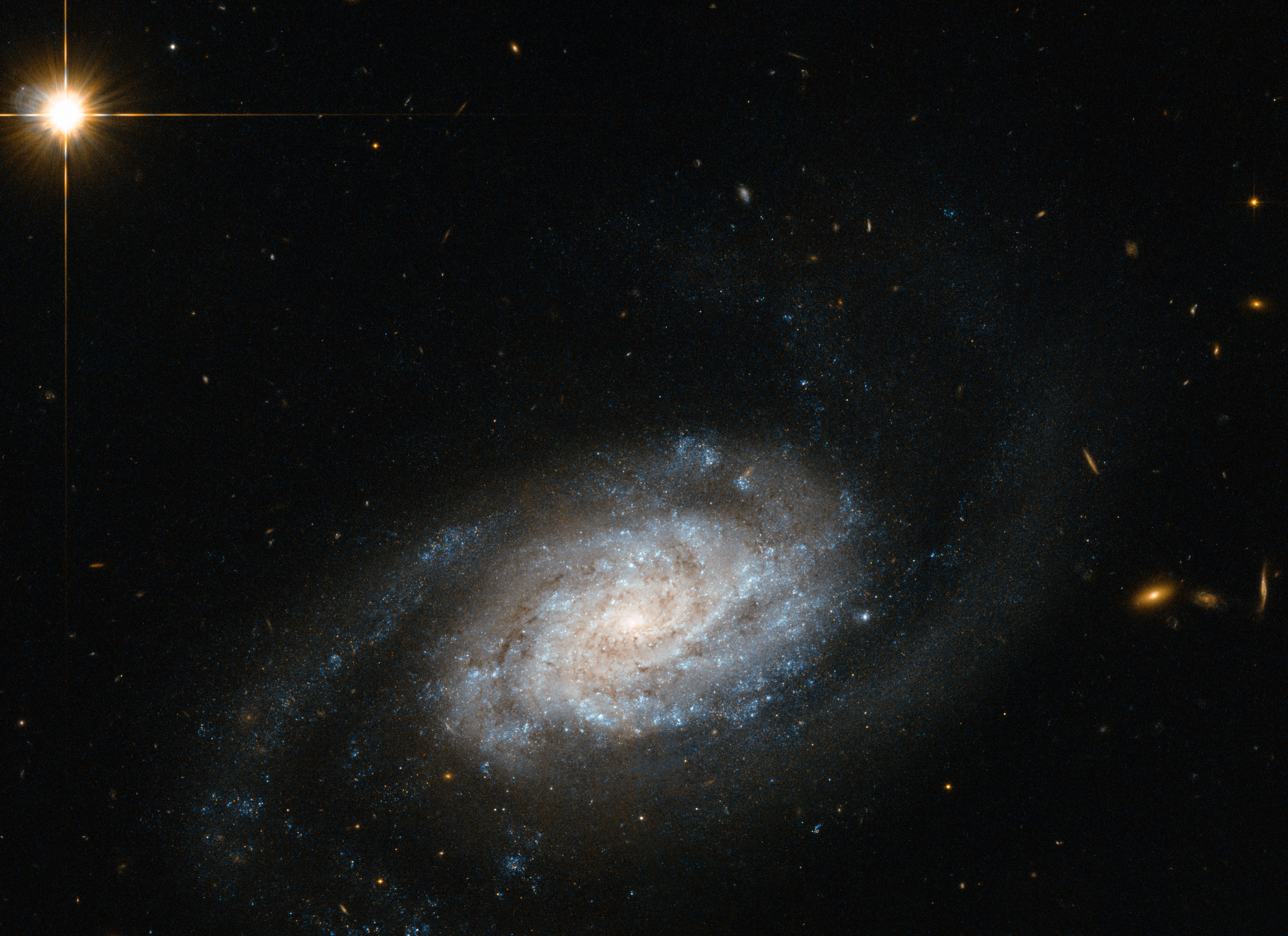 Shown here is a spiral galaxy known as NGC 3455, which lies some 65 million light-years away from us in the constellation of Leo (The Lion). Galaxies are classified into different types according to their structure and appearance. This classification system is known as the Hubble Sequence, named after its creator Edwin Hubble. In this sequence, NGC 3455 is known as a type SB galaxy — a barred spiral. Barred spiral galaxies account for approximately two thirds of all spirals. Galaxies of this type appear to have a bar of stars slicing through the bulge of stars at their centre. The SB classification is further sub-divided by the appearance of a galaxy's pinwheeling spiral arms; SBa types have more tightly wound arms, whereas SBc types have looser ones. SBb types, such as NGC 3455, lie in between. NGC 3455 is part of a pair of galaxies — its partner, NGC 3454, lies out of frame. This cosmic duo belong to a group known as the NGC 3370 group, which is in turn one of the Leo II groups, a large collection of galaxies scattered some 30 million light-years to the right of the Virgo cluster. This new image is from Hubble's Advanced Camera for Surveys (ACS). A version of this image was entered into the Hubble's Hidden Treasures image processing competition by contestant Nick Rose.